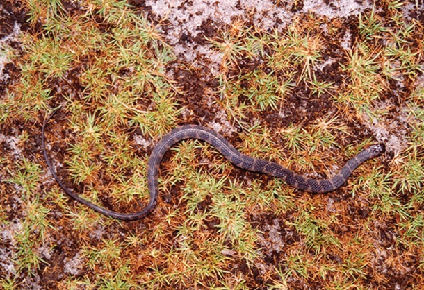 Helicops angulatus in Lençóis Maranhenses National Park, Maranhão State, Northeastern Brazil. Photo by J. P. Miranda.